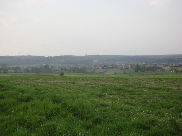 Mountain Ramża view from Bełk